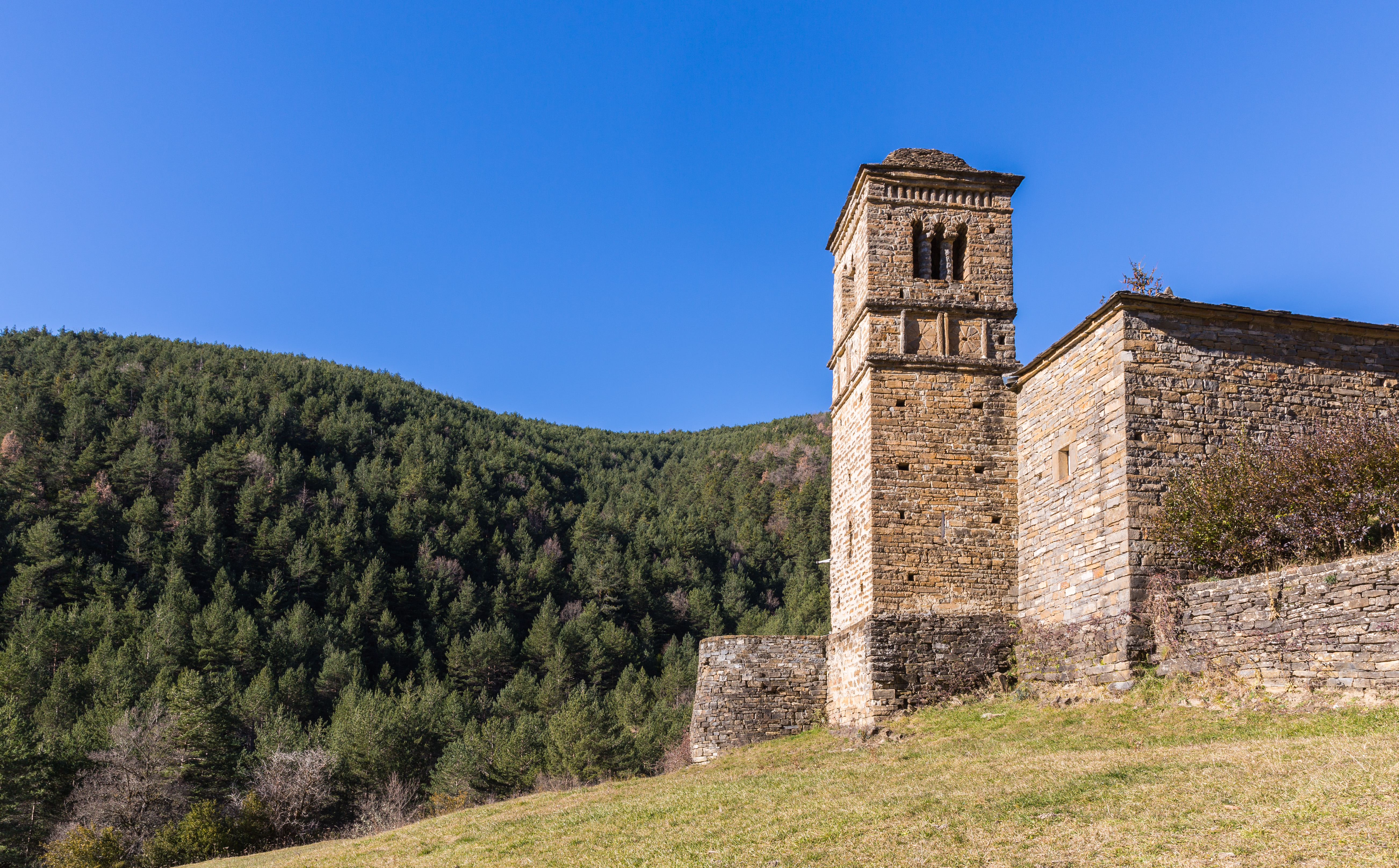 Church of St. Bartholomew, Gavín, Huesca, Spain